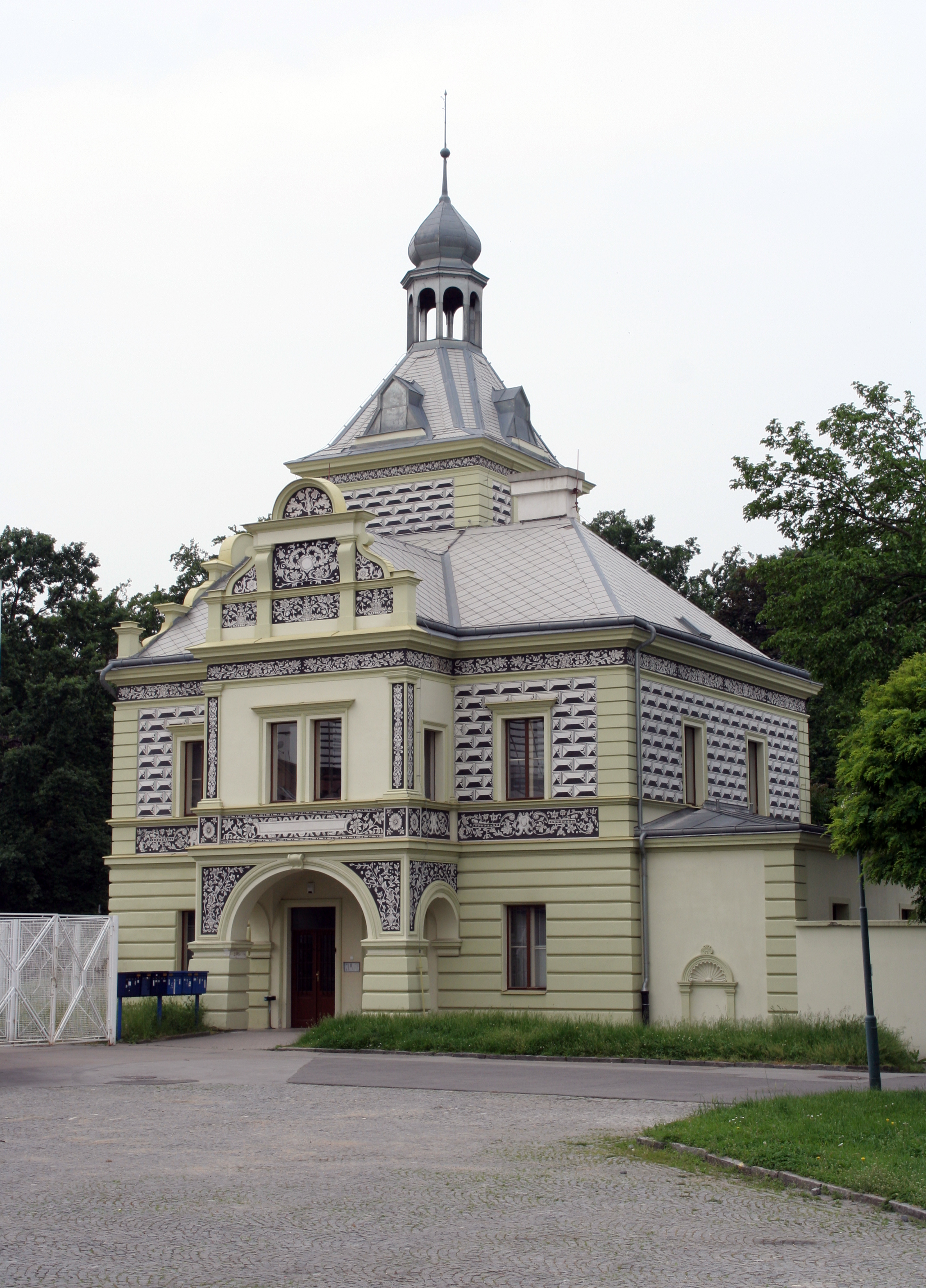 Exhibition Grounds